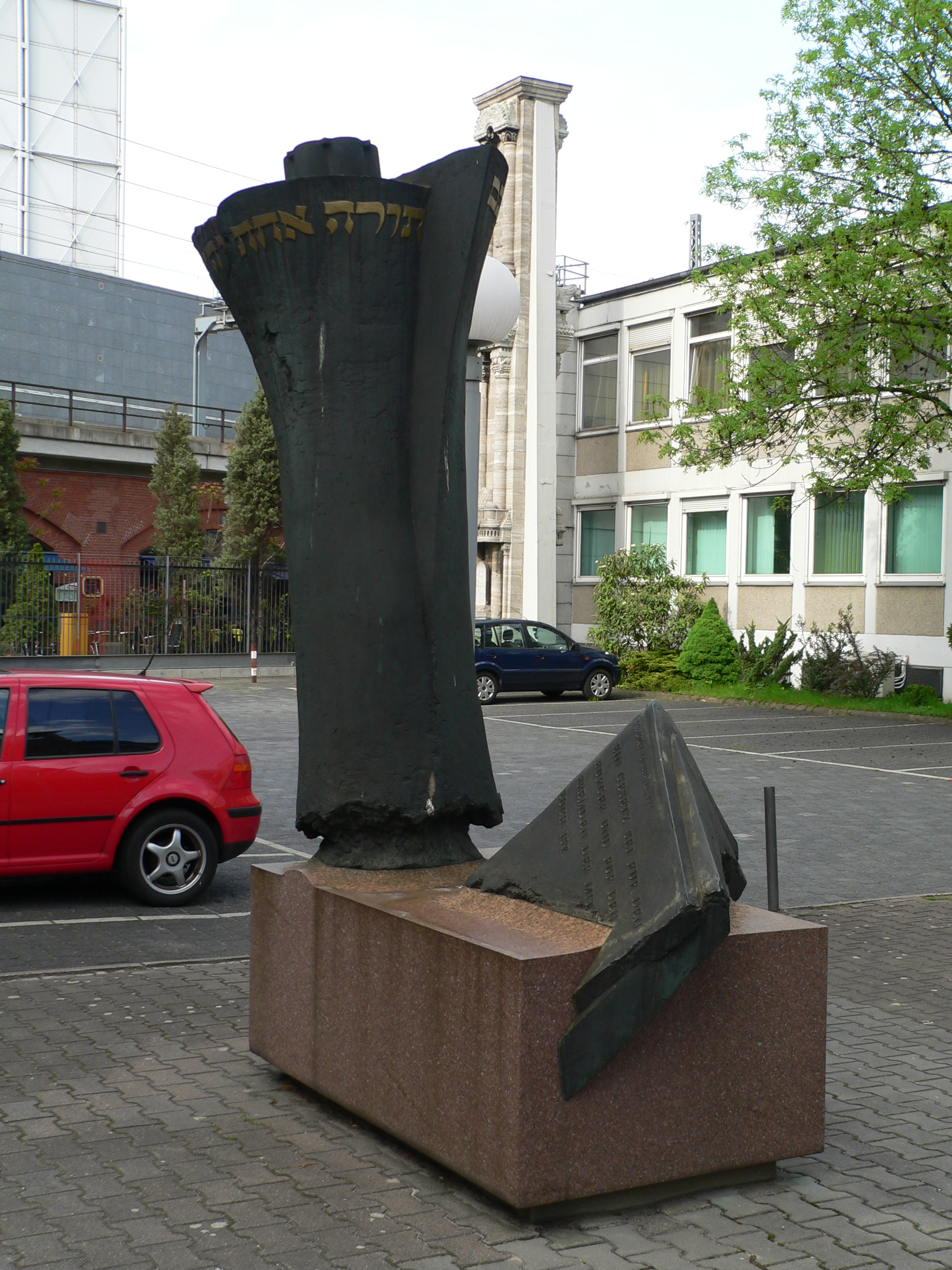 Berlin-Charlottenburg Fasanenstraße Jüdisches Gemeindehaus